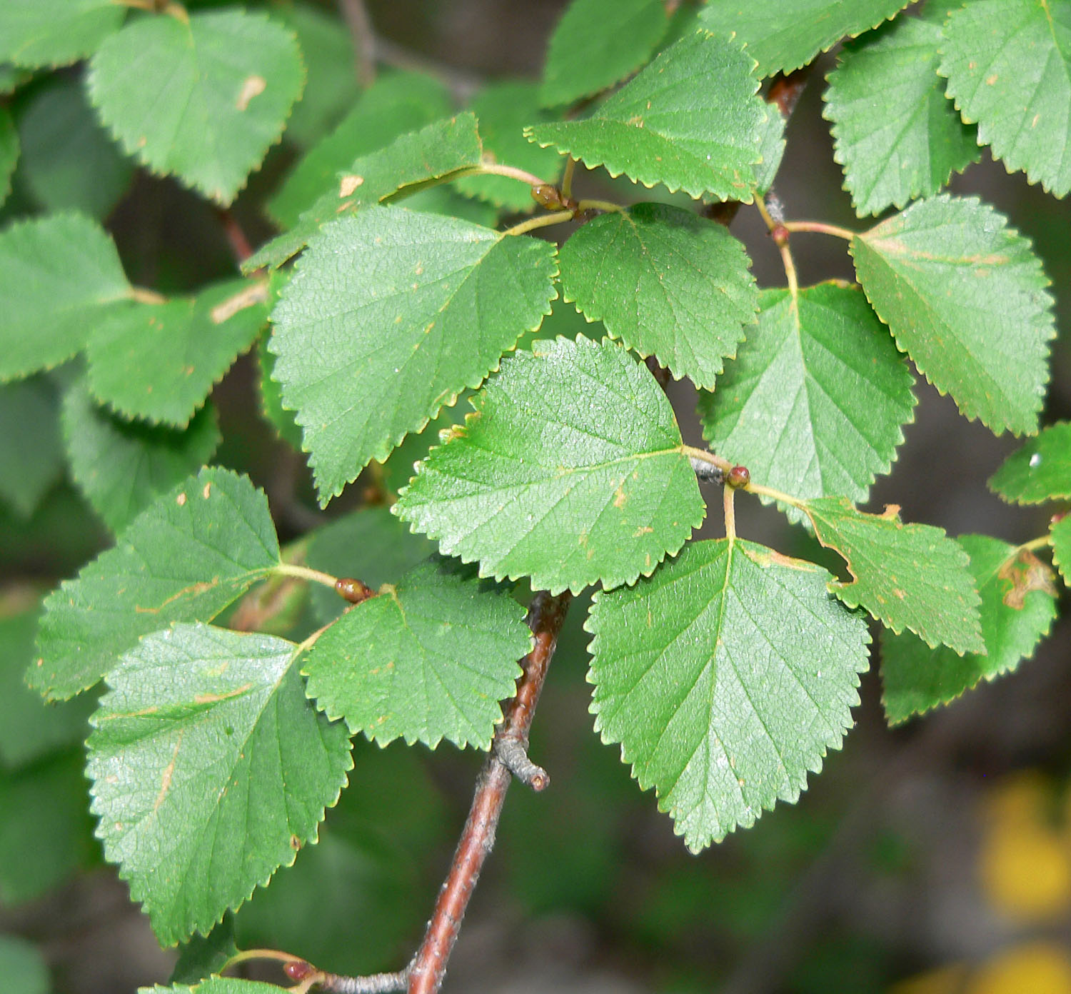 Betula occidentalis — Water birch. Alongside Deer Creek in the picnic area, Spring Mountains, southern Nevada (elev. about 2500 m).